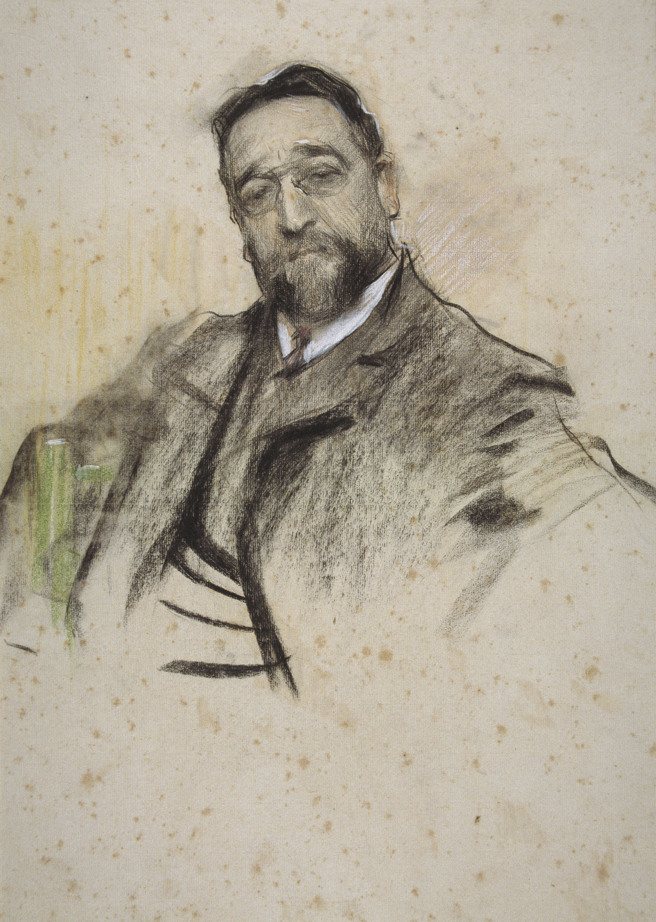 Portrait by Ramon Casas conserved at MNAC in Barcelona.